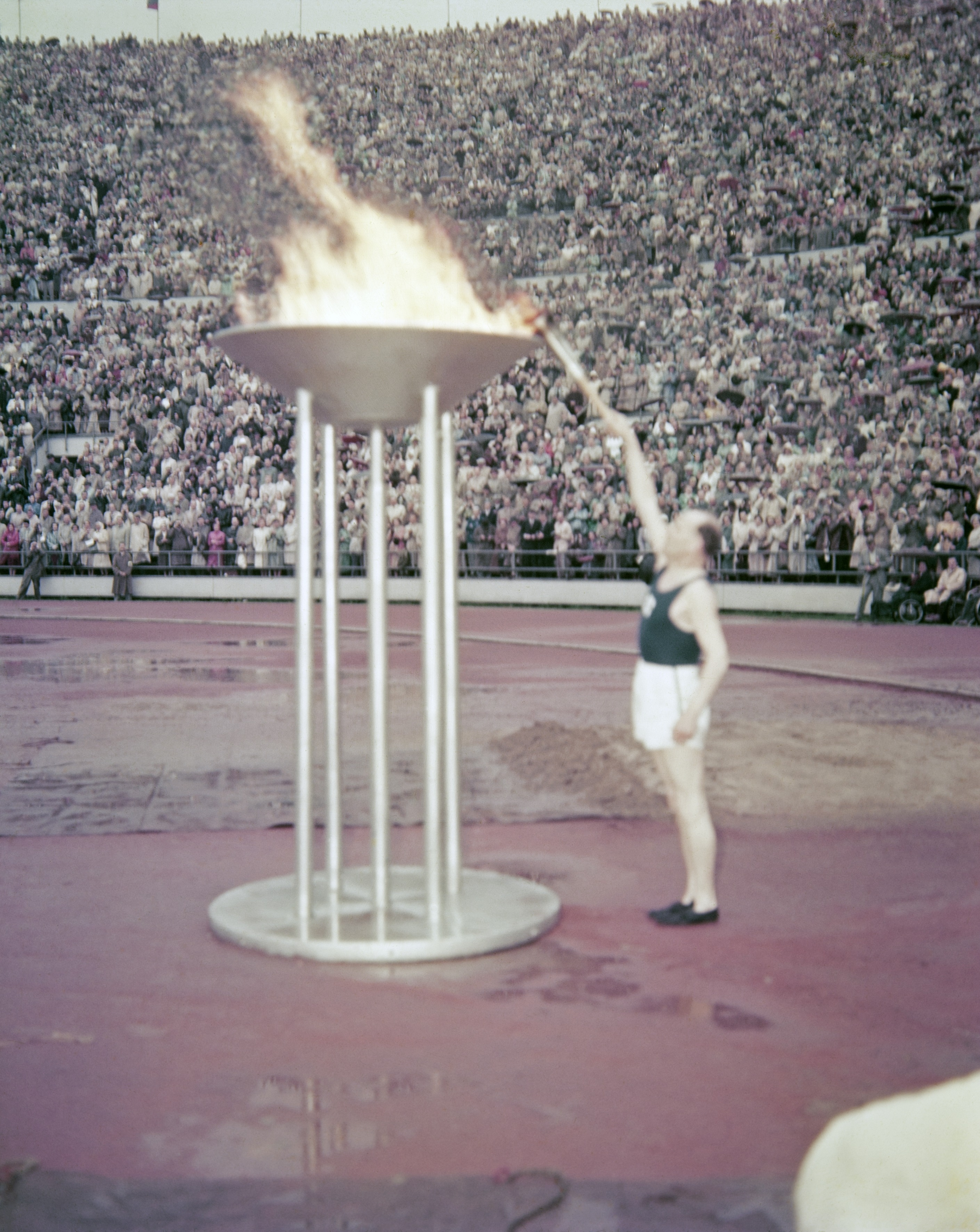 Paavo Nurmi lights the fire at the Olympic games in Helsinki 1952.According to the copyright council as the photograph is regarded a photographic image, not a work, and copyright thus has expired.